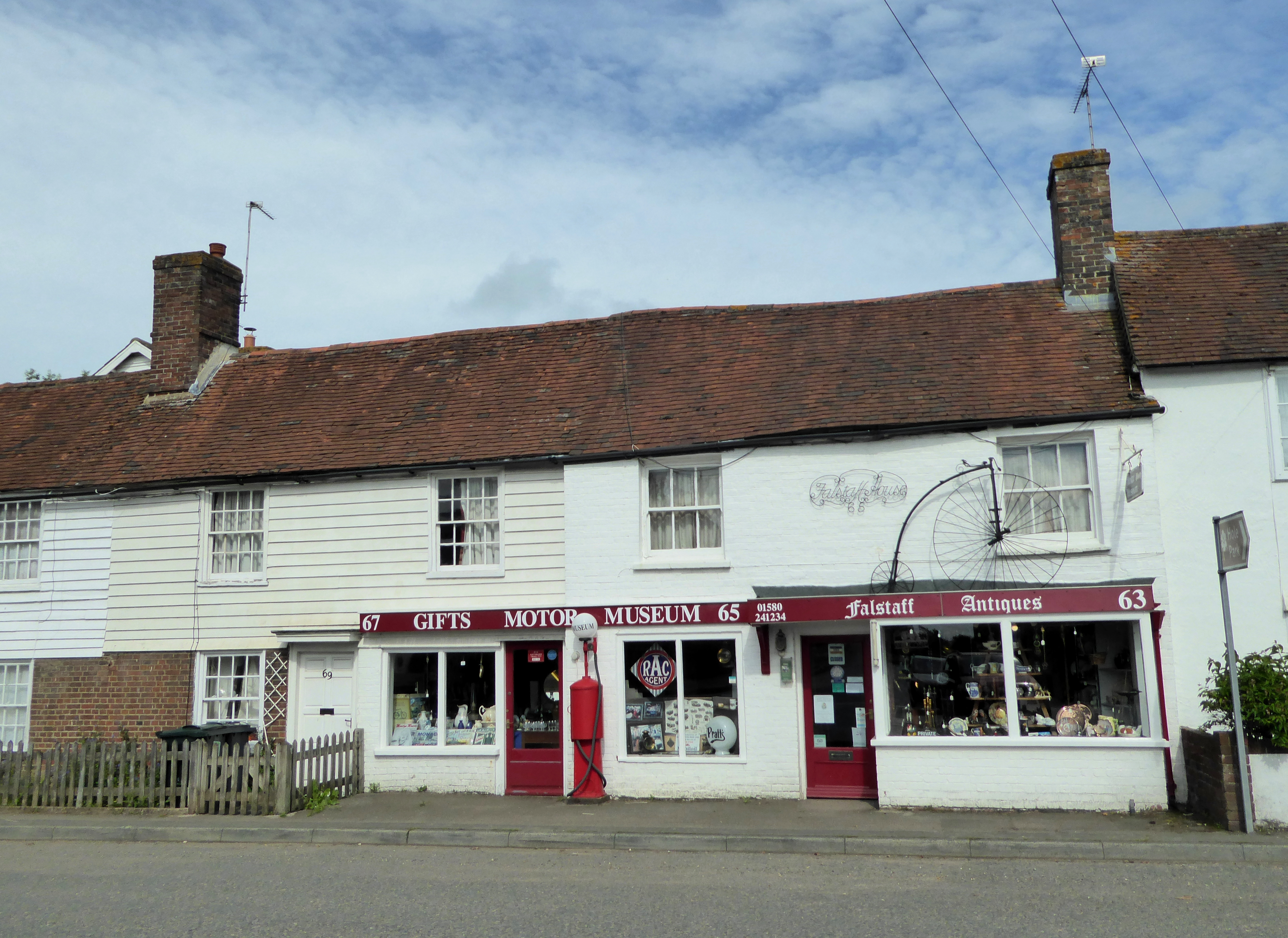 The C. M. Booth Collection, a motoring museum and attached antiques shop, in Rolvenden, Kent.